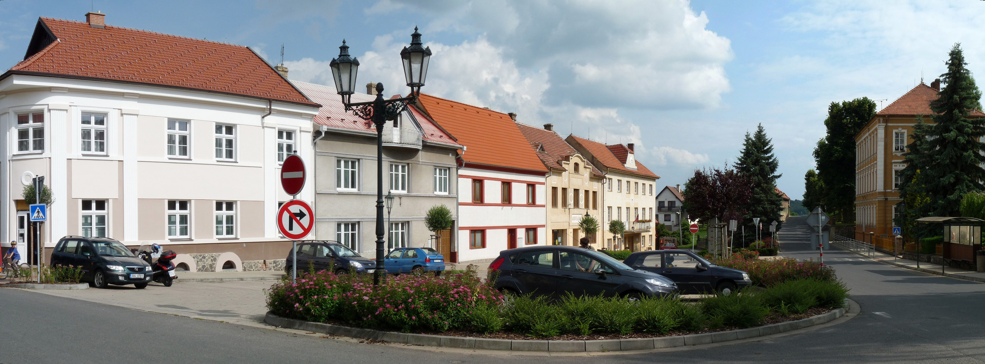 Square in the village of Třebívlice, Litoměřice District, Ústí nad Labem Region, Czech Republic.